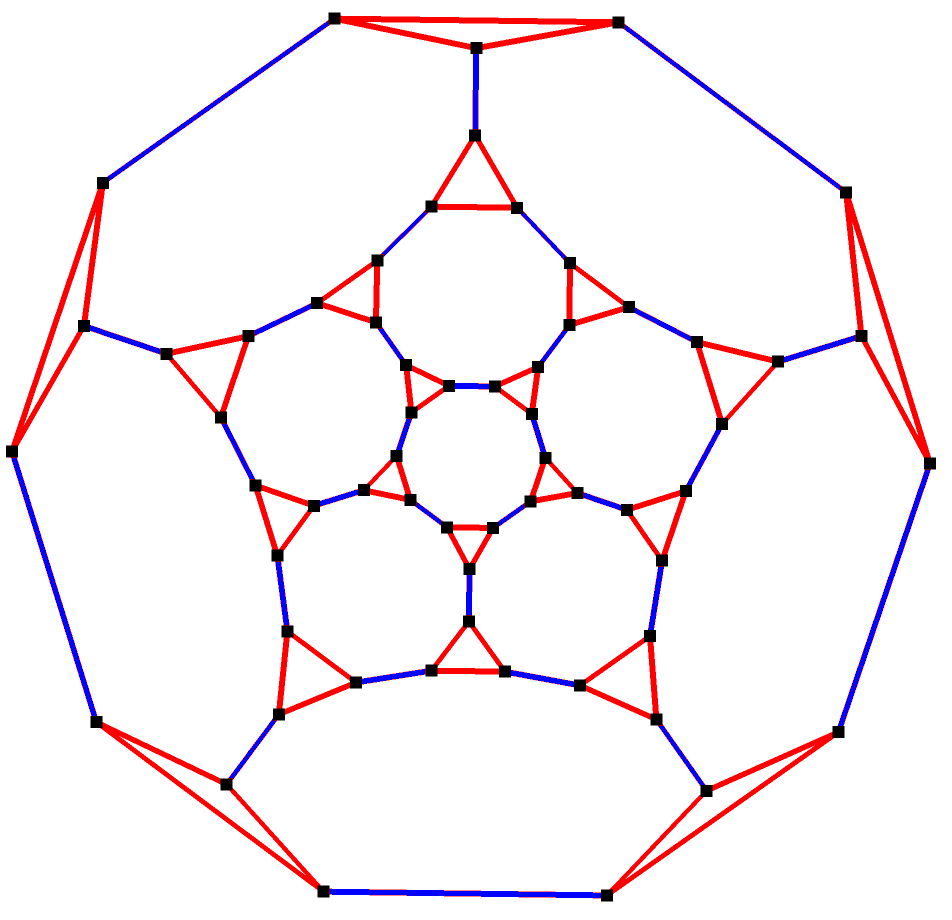 Schlegel diagram